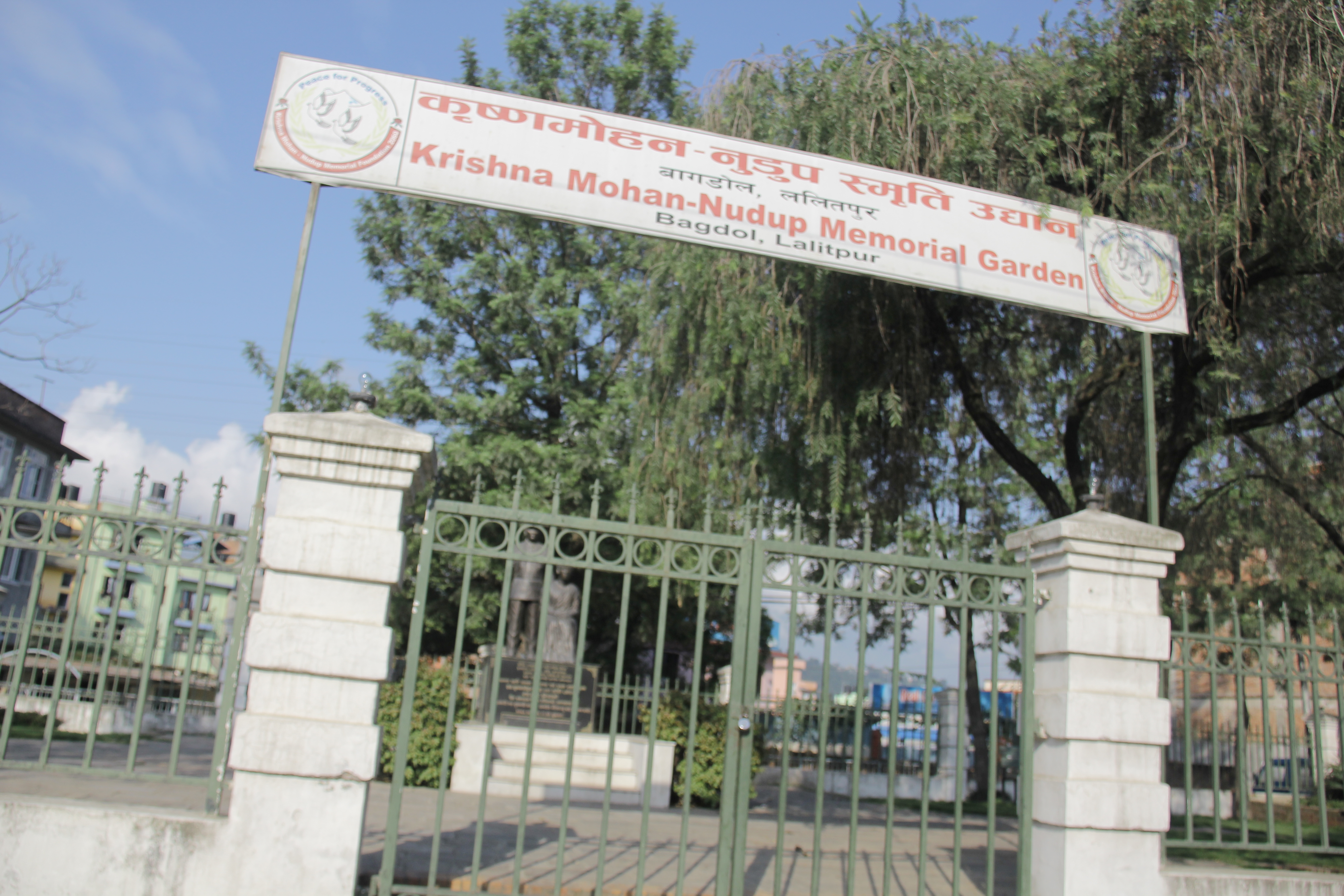 The entrance gate of Krishnamohan Nudup Memorial Garden in Lalitpur.